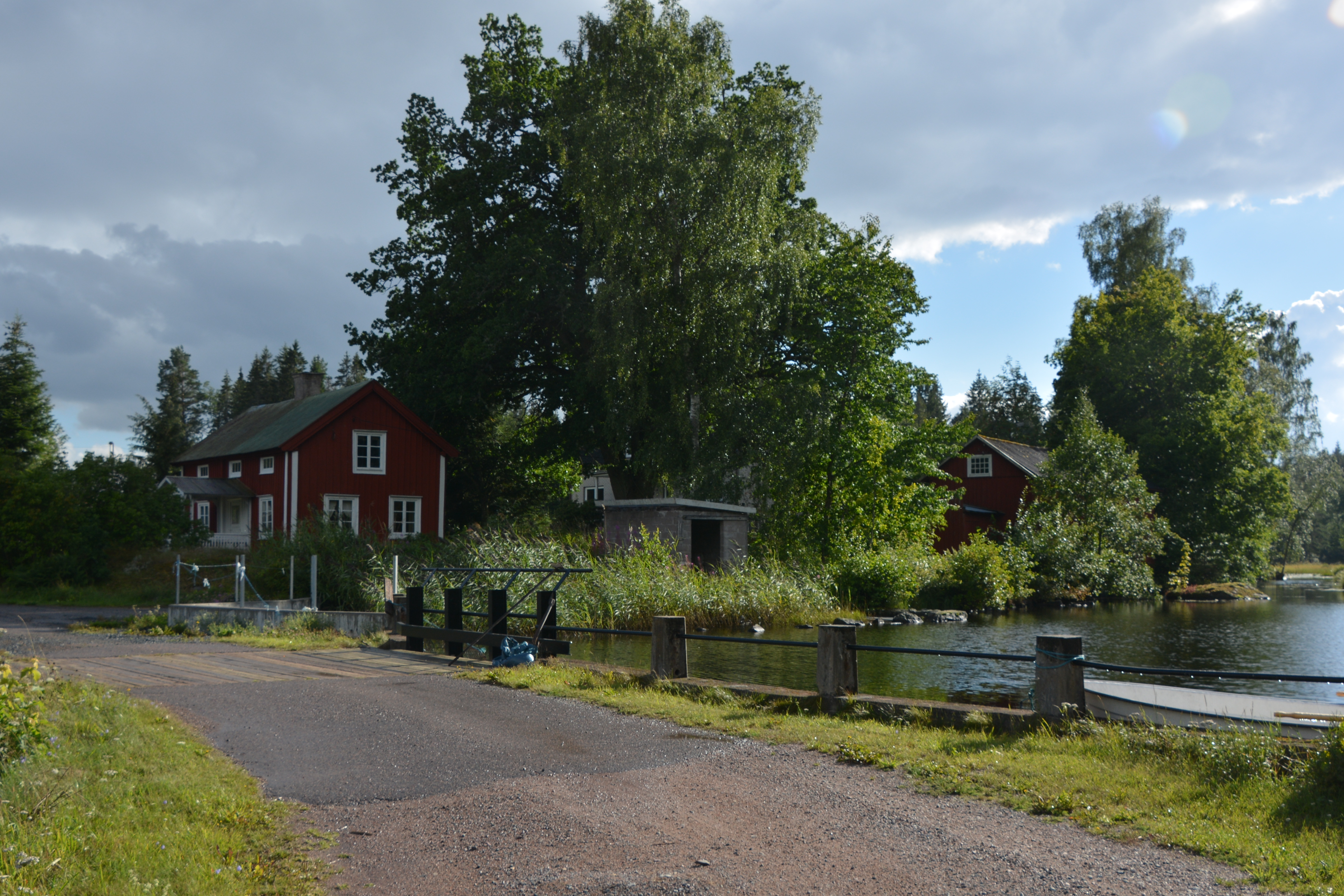 Dammen i Björnån i Mörtefors